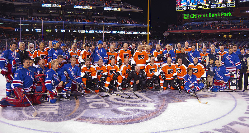 Group portrait of the Philadelphia Flyers and New York Rangers alumni after their Alumni Game at Citizens Bank Park in Philadelphia, PA, played on December 31, 2011, before a crowd of 45,801 as part of the 2012 NHL Winter Classic weekend. (Photograph by uploader)